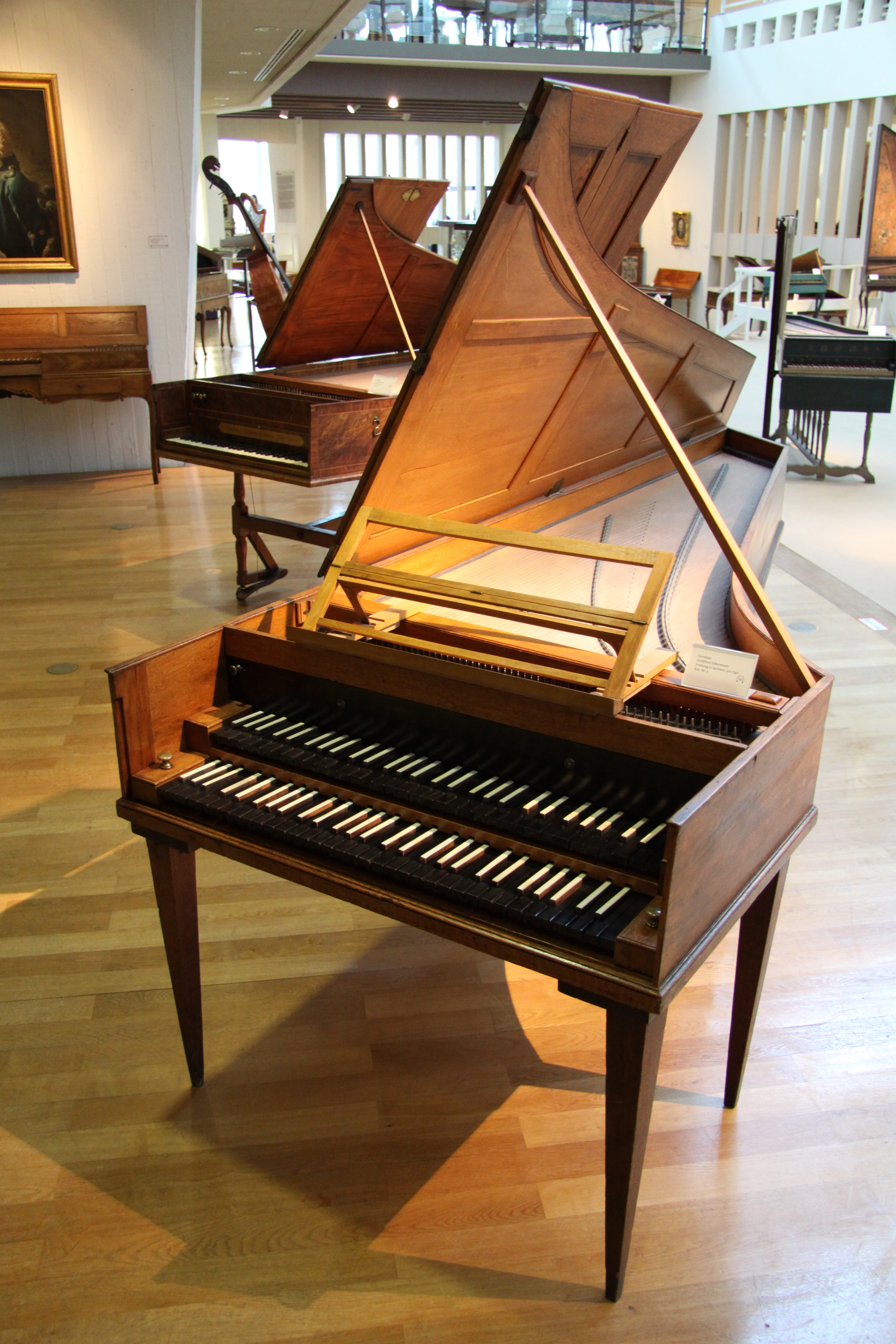 German harpsichord (by Gottfried Silbermann, Freiberg, around 1740).